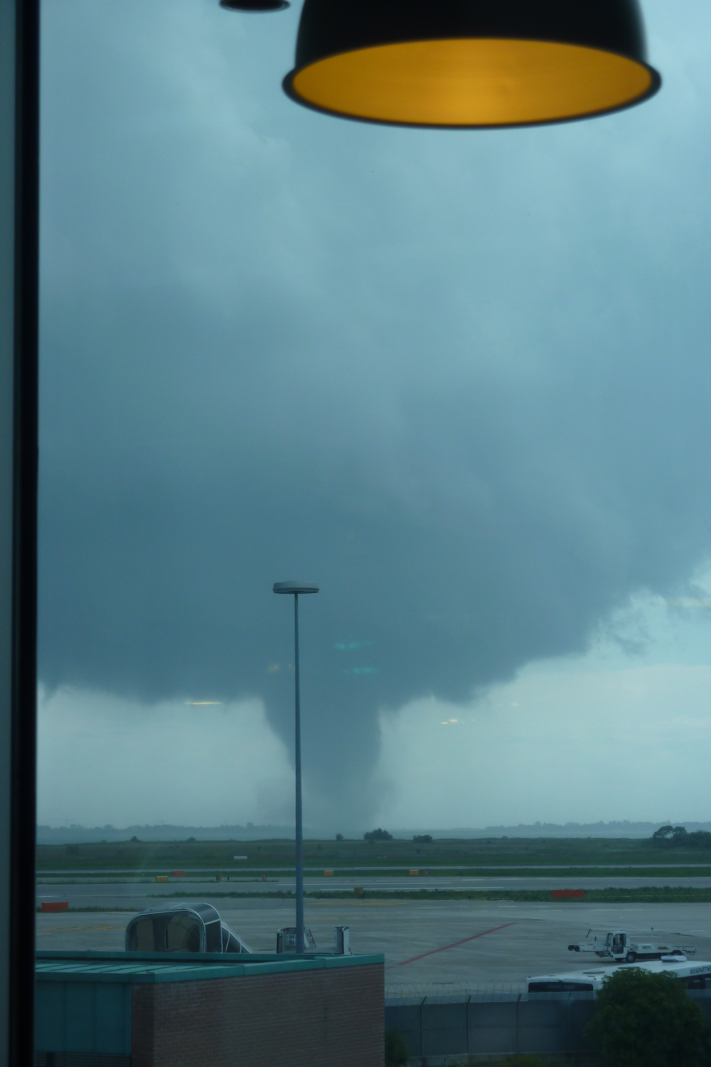 June 12th, 2012, tornado passing over Venice, Italy, viewed from an airport window. In this image the tornado is fully developed and is touching the ground (at the top, a yellow airport lamp).